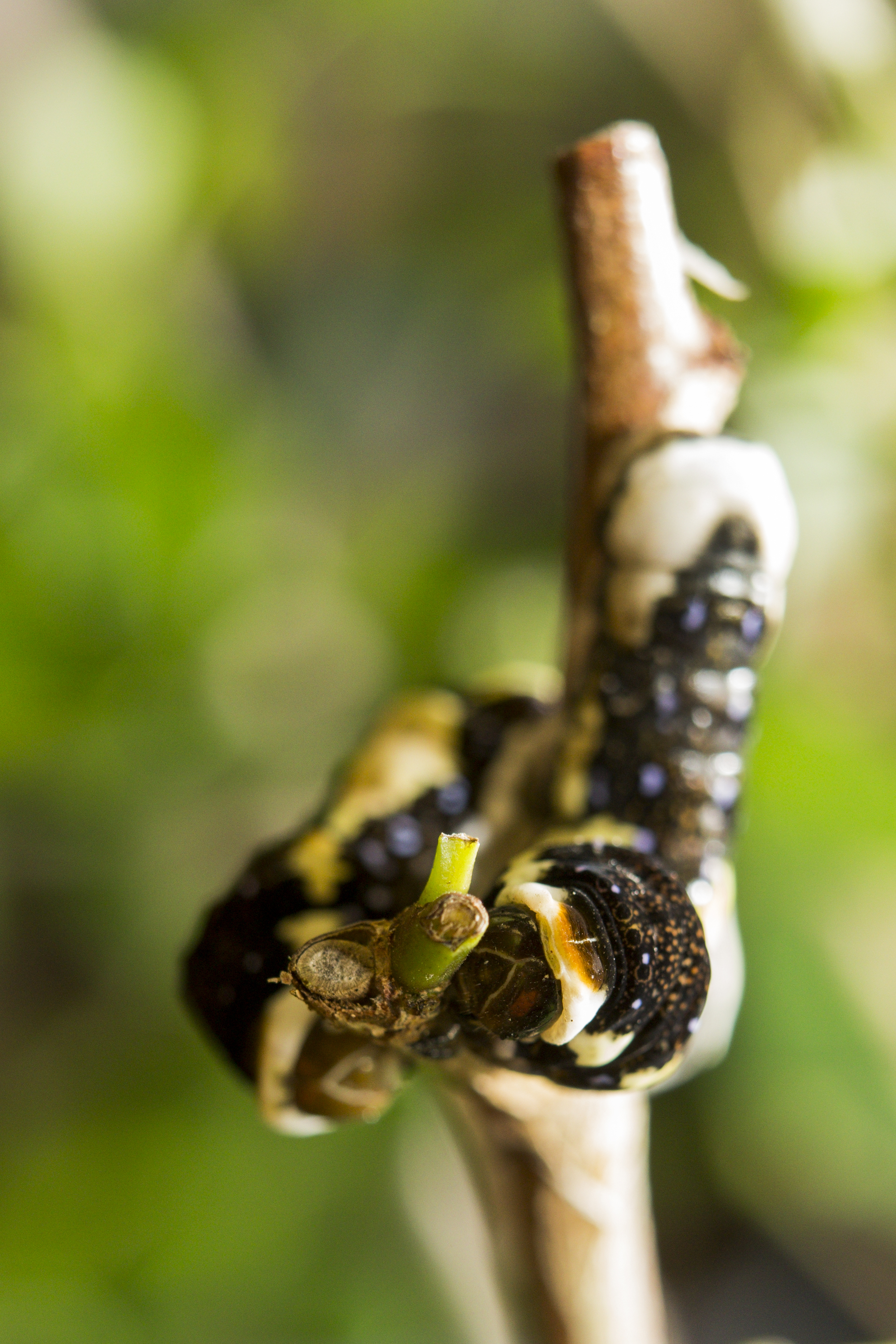 Photo: University of Florida/Institute of Food and Agricultural Sciences